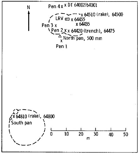 Figure 6-33 (edited slightly). Planimetric map of Apollo 16 Geology Station 4, at Cinco craters. X indicates sample locations, 5-digit numbers are LRL sample numbers, rectangle is lunar rover (dot indicates TV camera), black spots are large rocks, dashed lines are crater rims or other topographic features, and triangles are panorama stations.